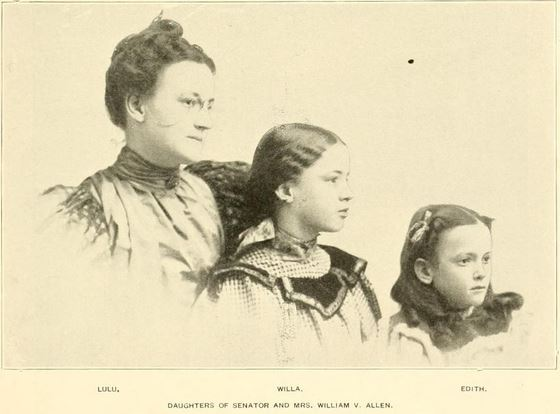 Lulu, Willa and Edith Allen